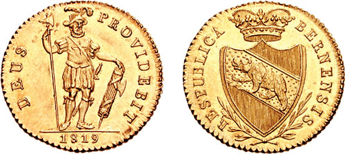 Switzerland, Bern. AV Duplone (7.62 g, 6h). Dated 1819. RESPUBLICA BERNENSIS, crowned coat-of-arms DEUS PROVIDEBIT, medieval foot soldier with halberd and fasces; cross on surcoat, 1819 below. Engrailed edge. Lohner 156; KM 163; Friedberg 187.